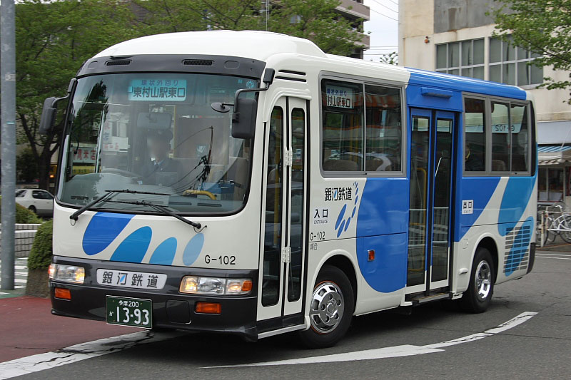 Ginga Tetsudo's route bus (Car No.G-102 / Hino Liesse KC-RX4JFAA / Hino body at Higashi-Murayama Station East, Higashi-Murayama, Tokyo, Japan